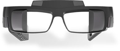 DK50 Image